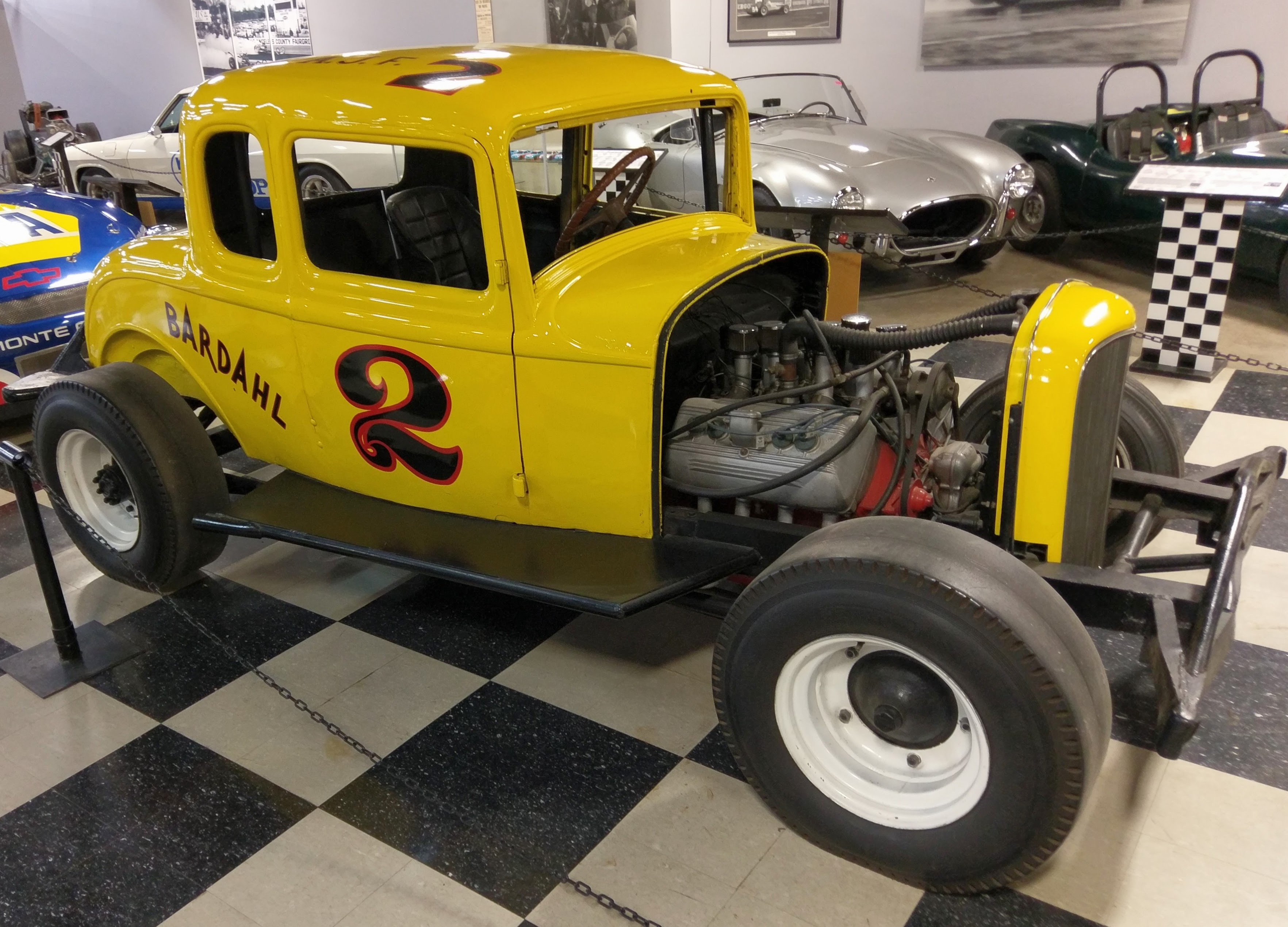 A.J. Foyt converted this Ford into a race car, and raced it in 1955, at the beginning of his career. The car is on display at the California Automobile Museum. Photo by Jim Heaphy.